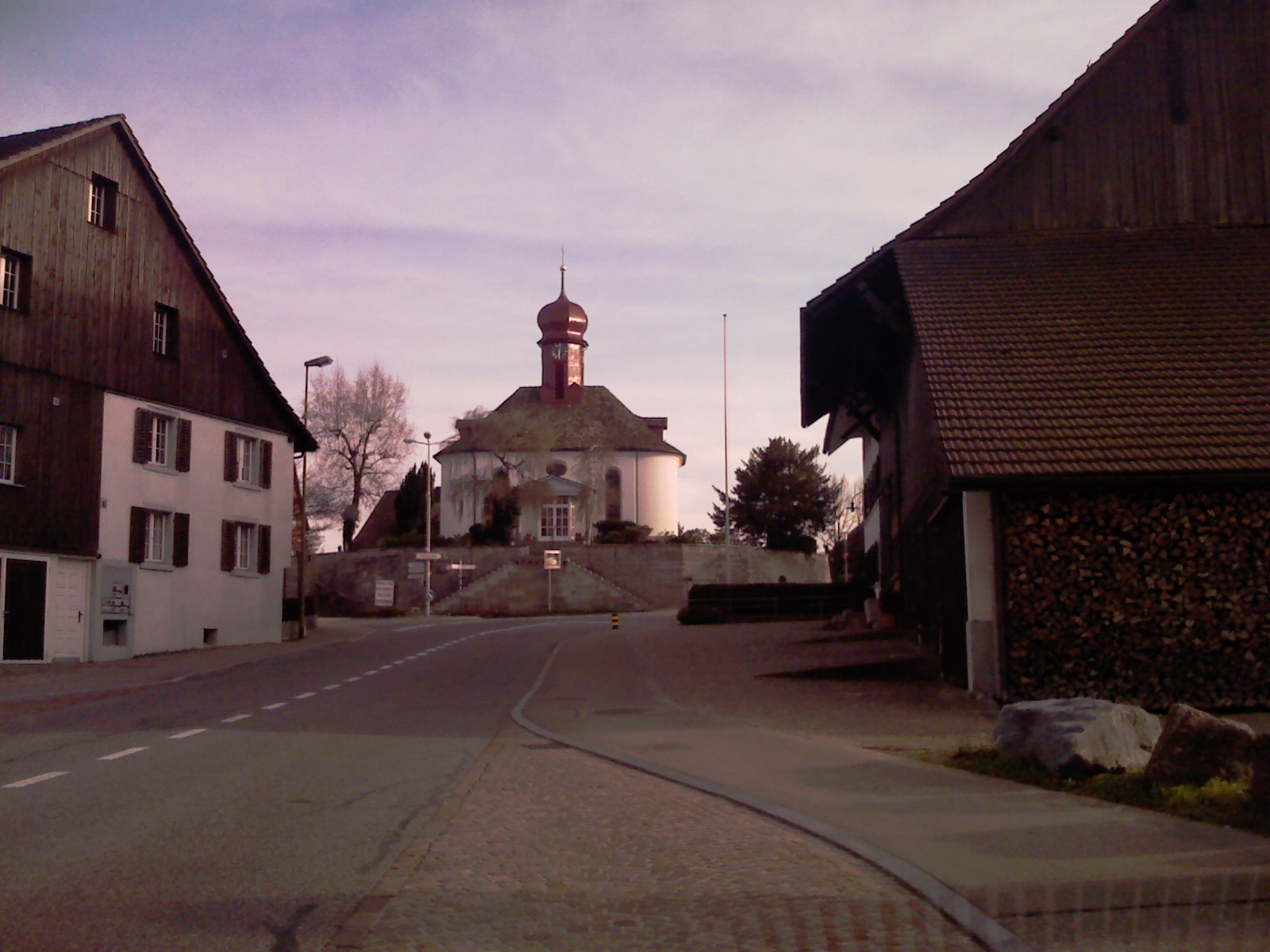 Church of Schwerzenbach, canton of Zürich, SwitzerlandEsperanto: Preĝejo de Schwerzenbach, Kantono Zuriko, Svislando